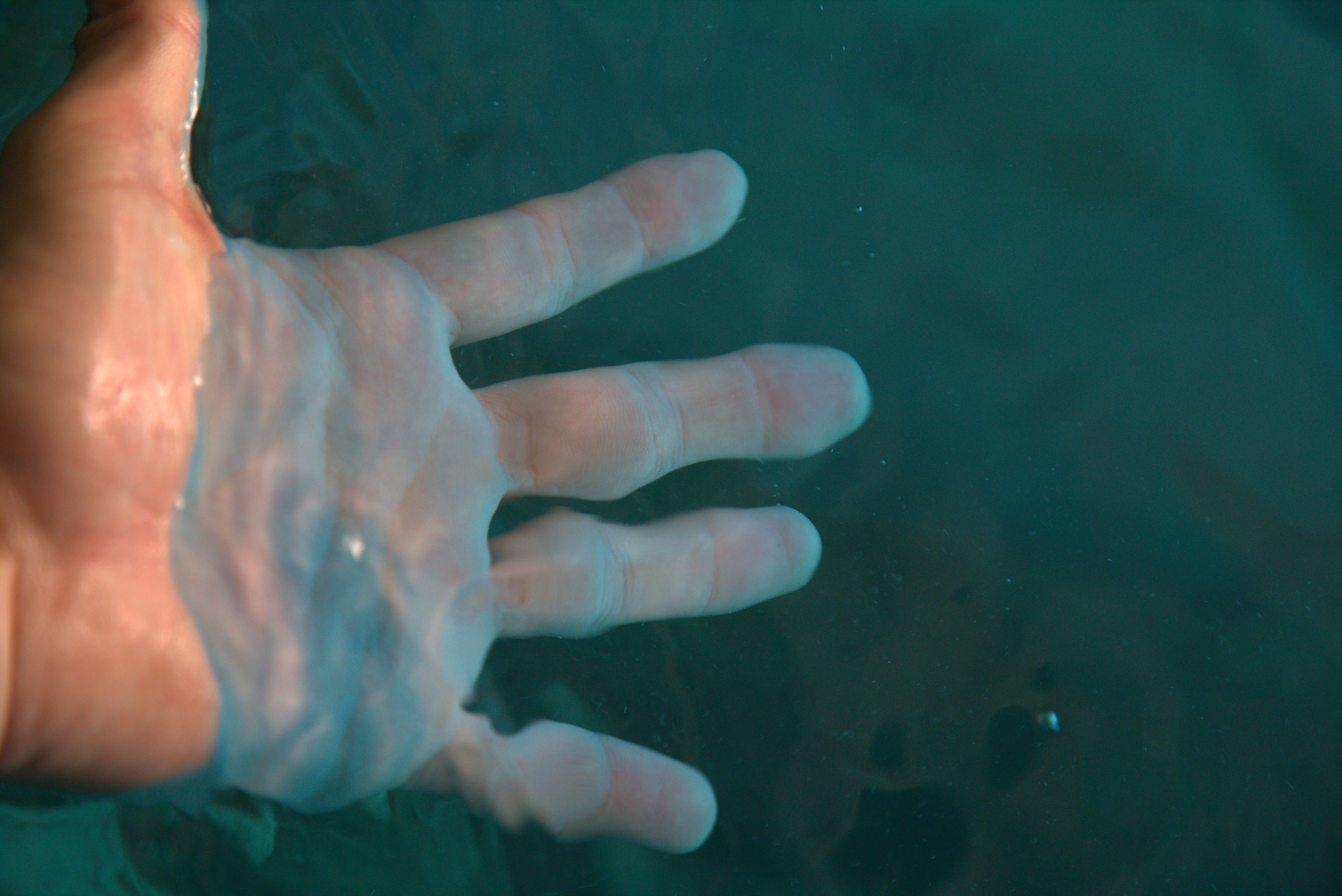 Hand in the water at the Blue Grotto to show how blue the water appears in December 2014.